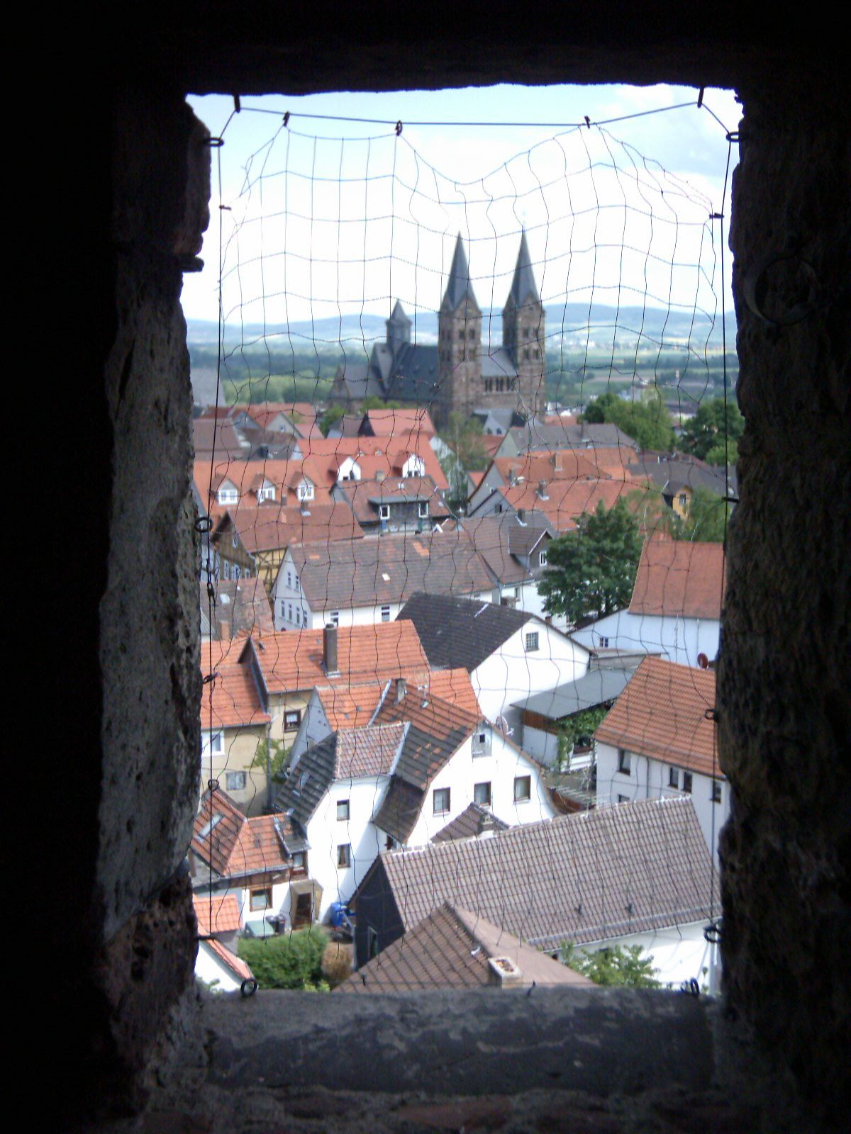 View of Fritzlar, Hesse, Germany, from the Grey Tower; in the back is St. Petri Cathedral